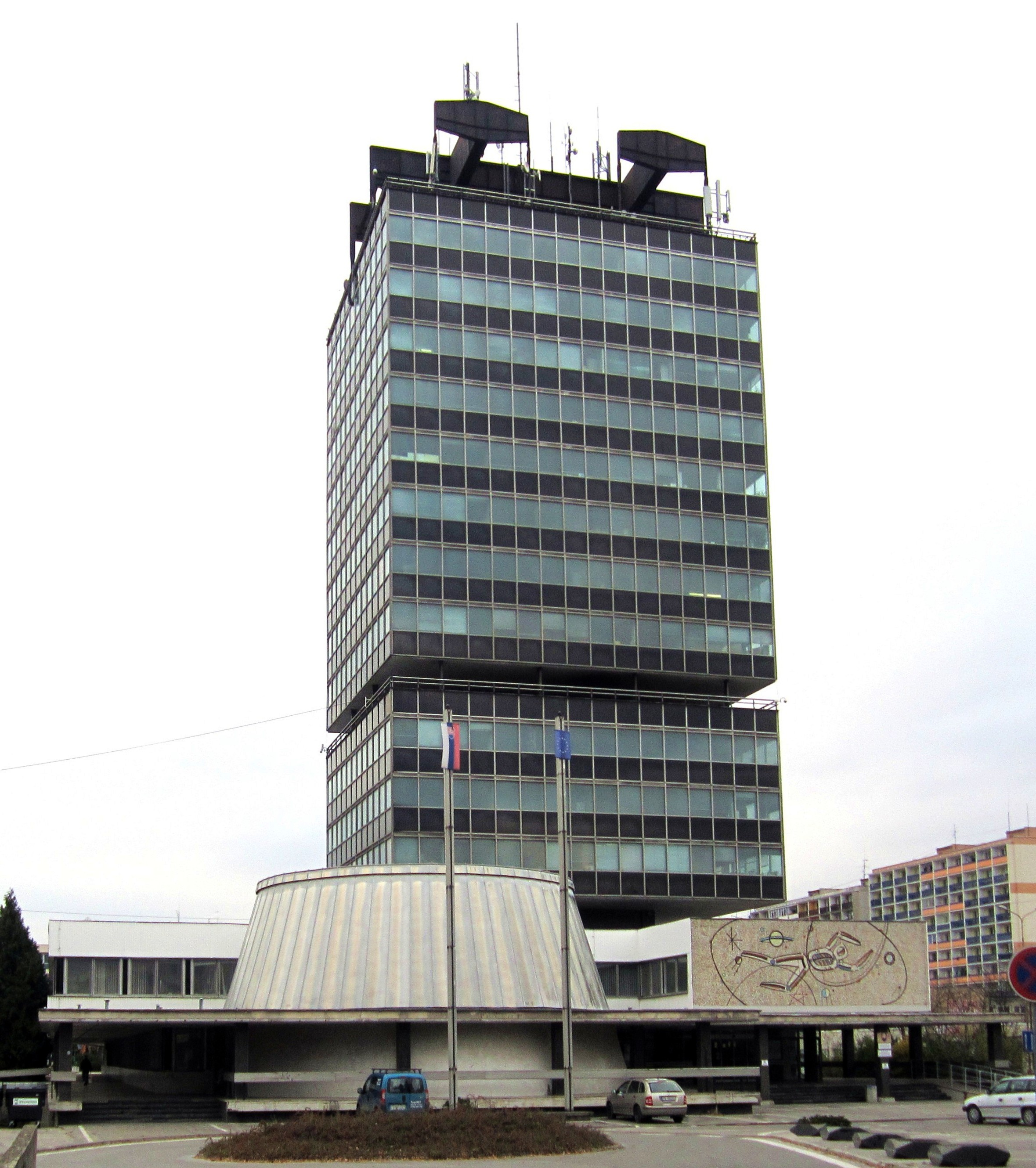 Administrative building of executive agencies in Považská BytricaSlovenčina: Administratívna budova štátnych orgánov v Považskej Bystrici